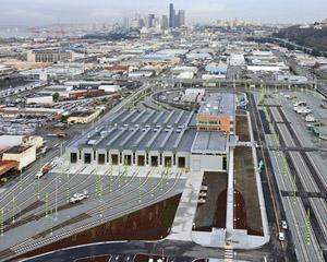 Sound Transit Light Rail Maintenance Facility - Seattle, WA